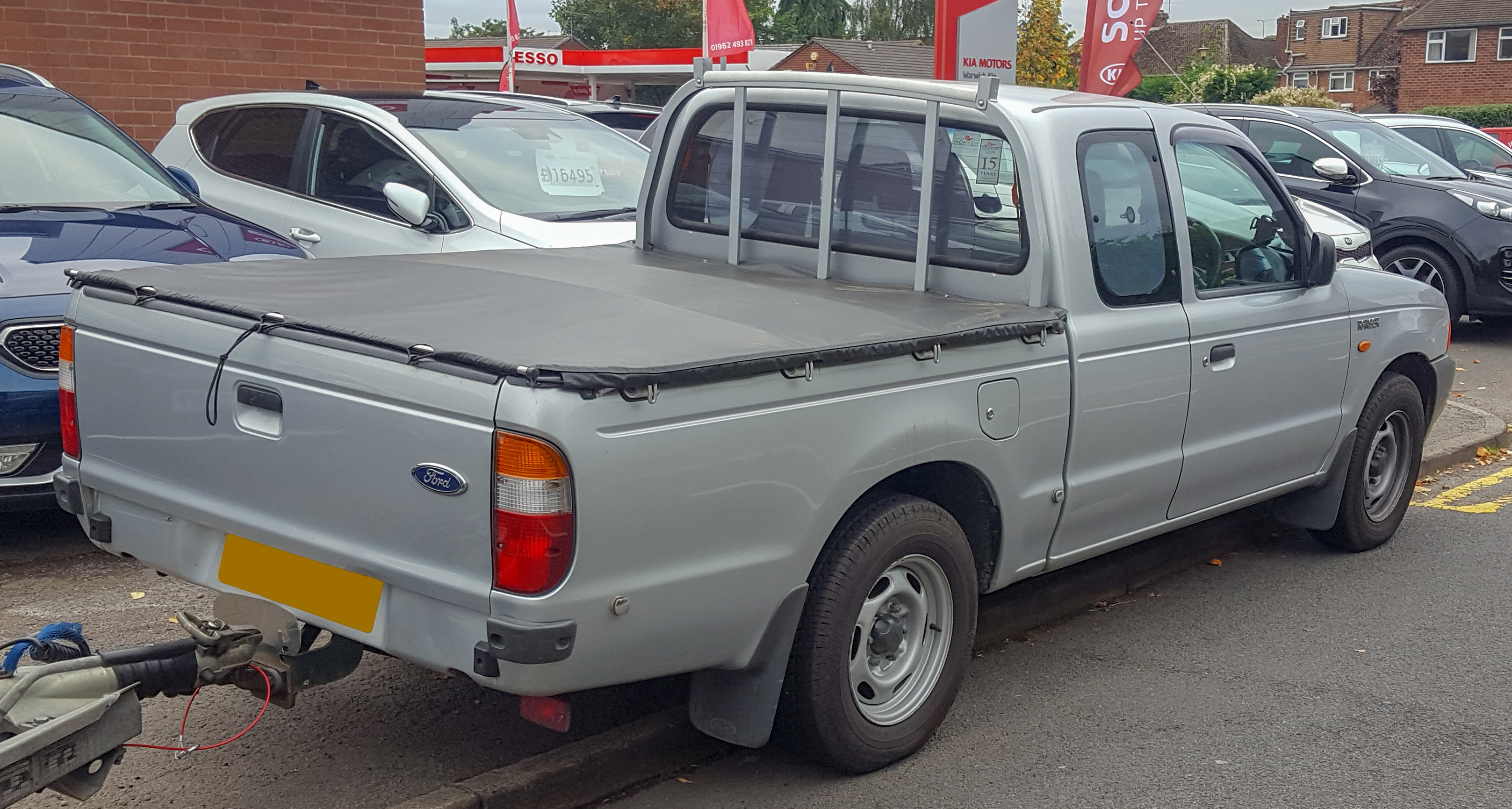 2000 Ford Ranger Super Cab Diesel 2.5 Rear Taken in Warwick